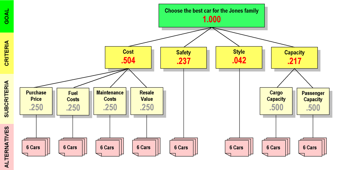 Analytic Hierarchy Process. Illustration for an example in an article.